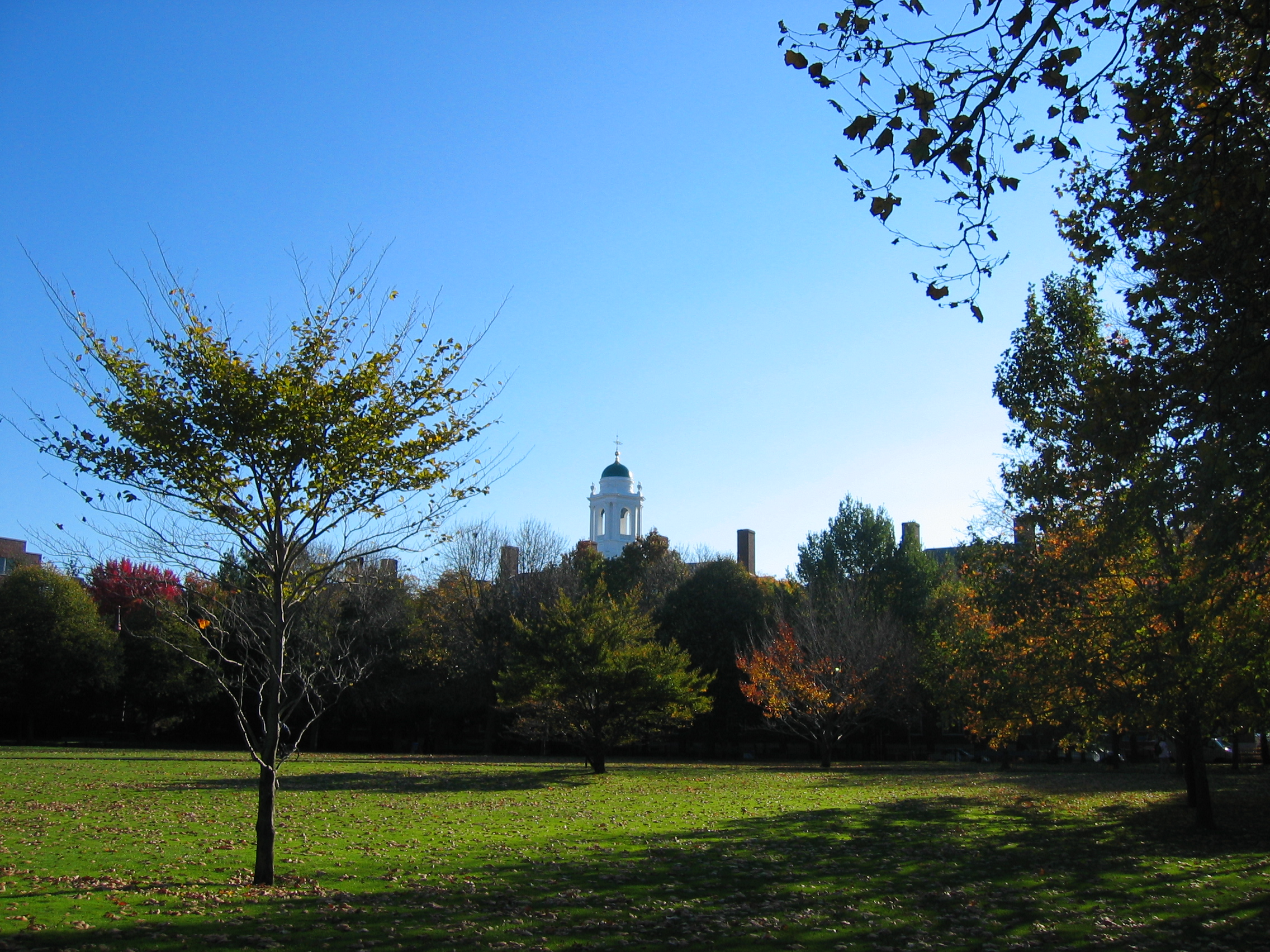 Taken by User:Tobacman on the morning of Saturday, 10/21/2006, among perfect fall colors.